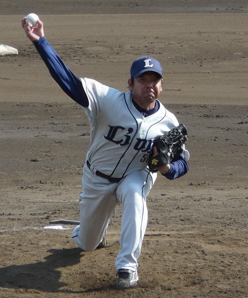 Shinji-Taninaka